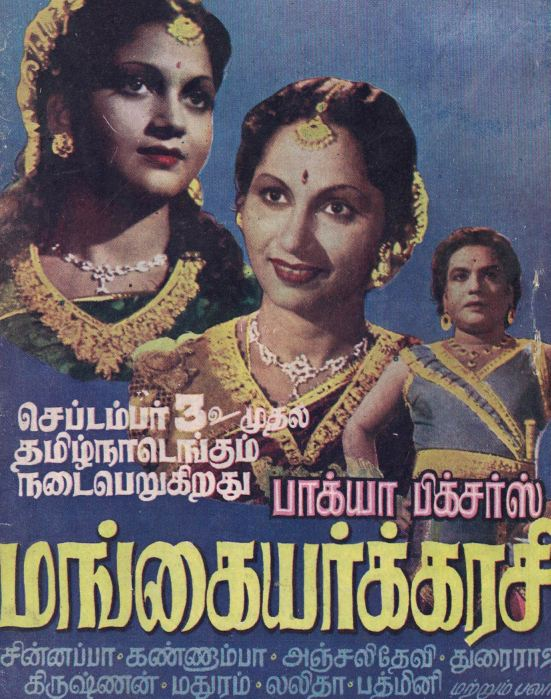 Poster for the 1949 South Indian Tamil film Mangaiyarkkarasi